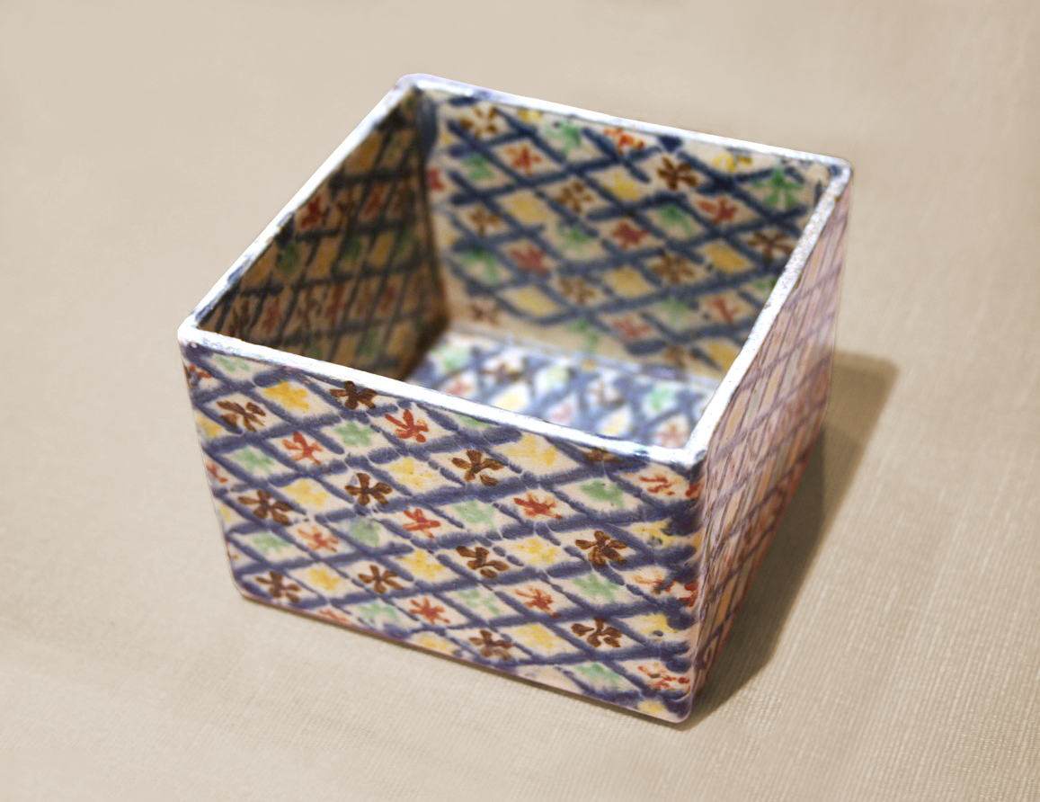 Attributed to Ogata Kenzan (1663-1743) Dish (Mukozuke) Japan, Edo period, ca. 1725 Stoneware with glaze, Kyoyaki ware Purchase, 1962 (3004.1) Wikipedia Loves Art at the Honolulu Academy of Arts This photo of item # 3004.1 at the Honolulu Academy of Arts was contributed under the team name "Department_of_Trife" as part of the Wikipedia Loves Art project in February 2009. Honolulu Academy of Arts The original photograph on Flickr was taken by christopherhu—please add a comment to the original Flickr page whenever a use has been made on Wikipedia or another project. Project galleries on Flickr: this institution, this team